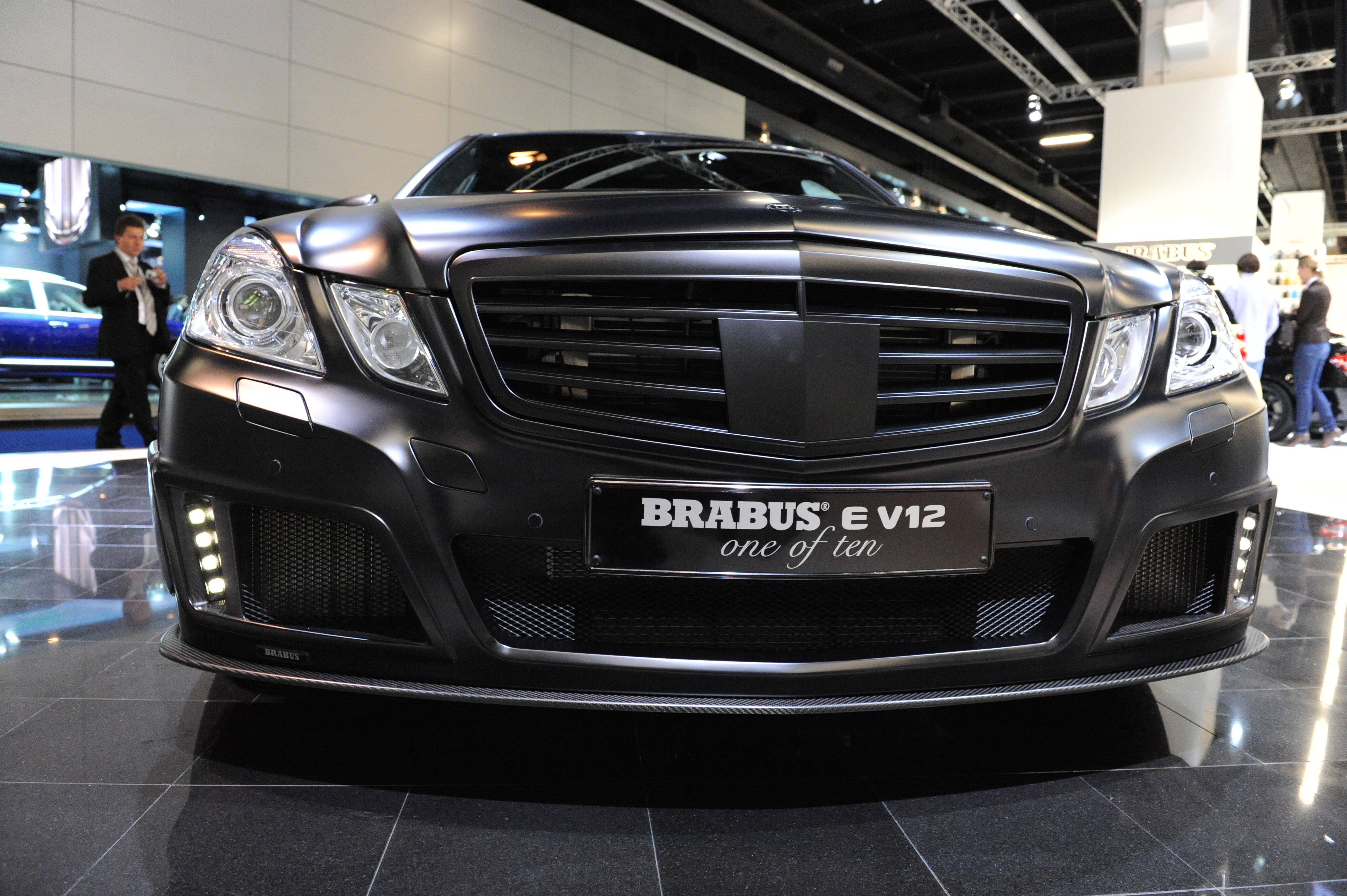 BRABUS EV12 Limited Edition (10 units) exhibited at 2009 Frankfurt Motor Show